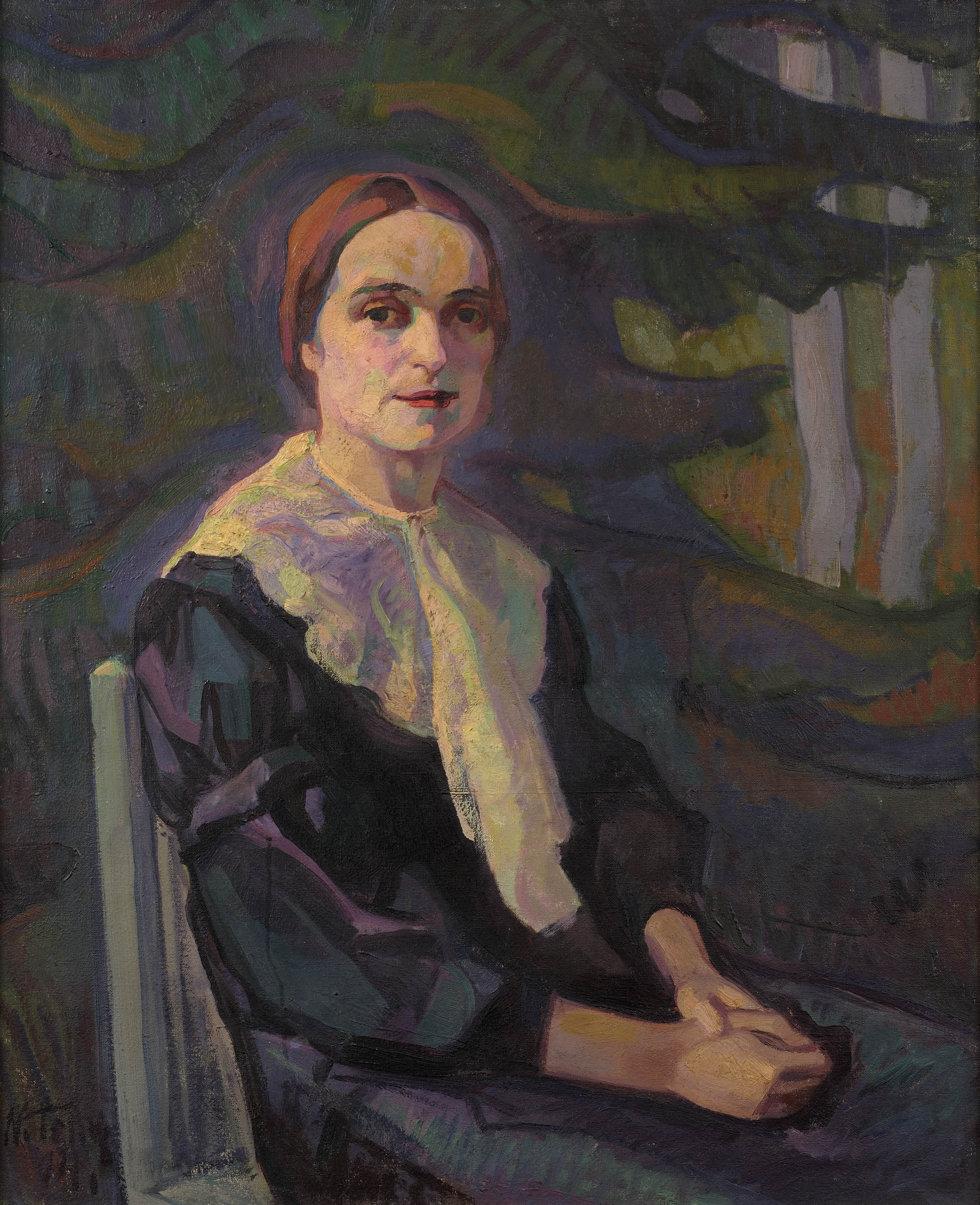 Nikolai Triik "Portrait of Aino Suits", 1914, oil/canvas.